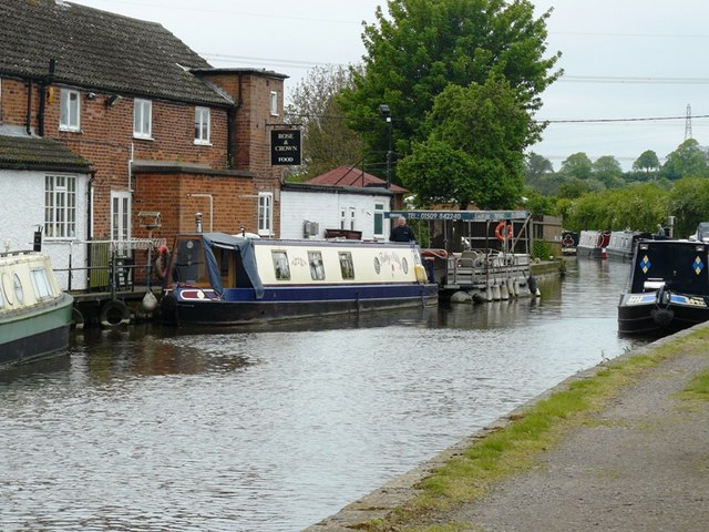 Zouch canal And pub